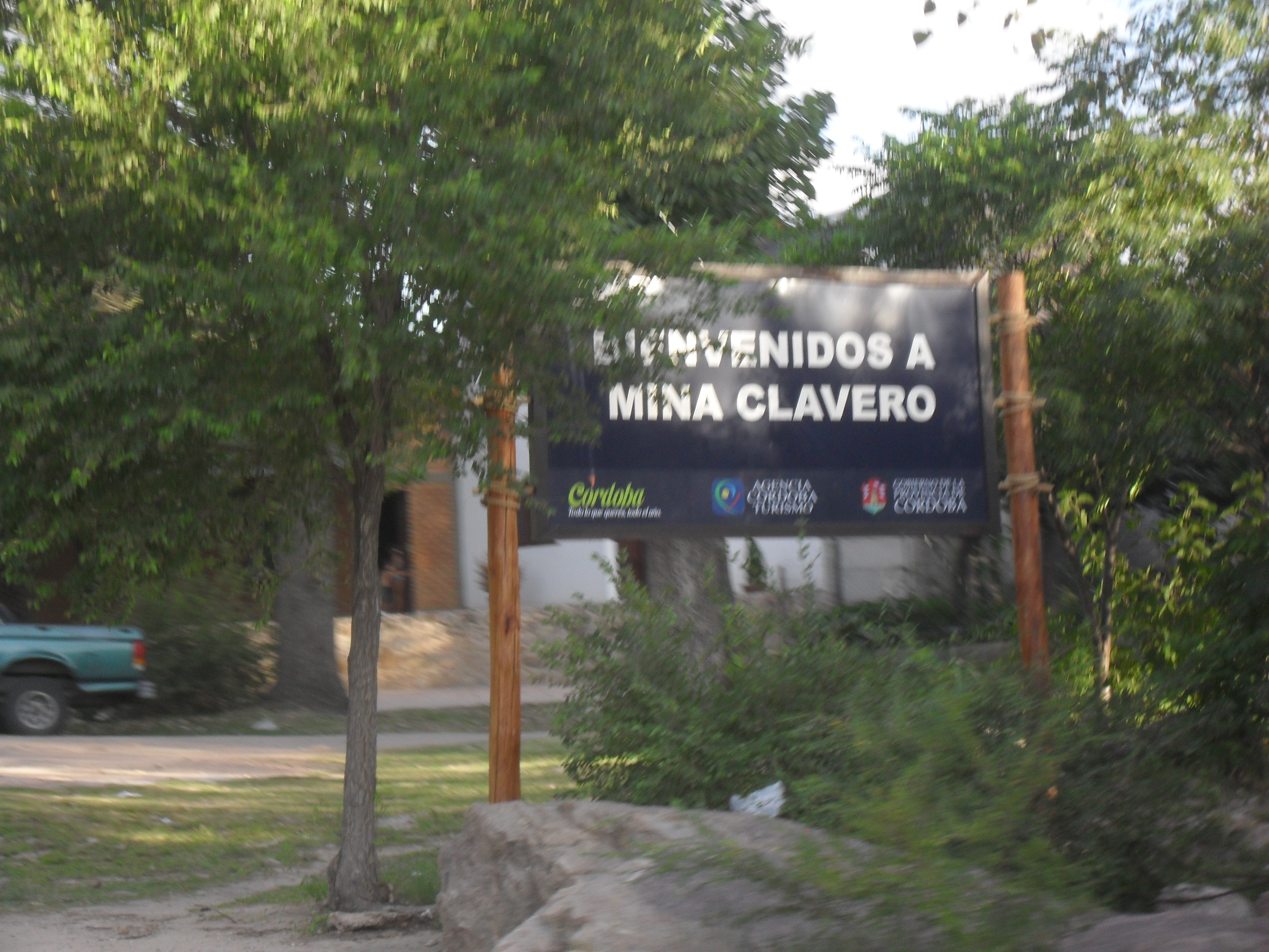 Welcome sign to the city